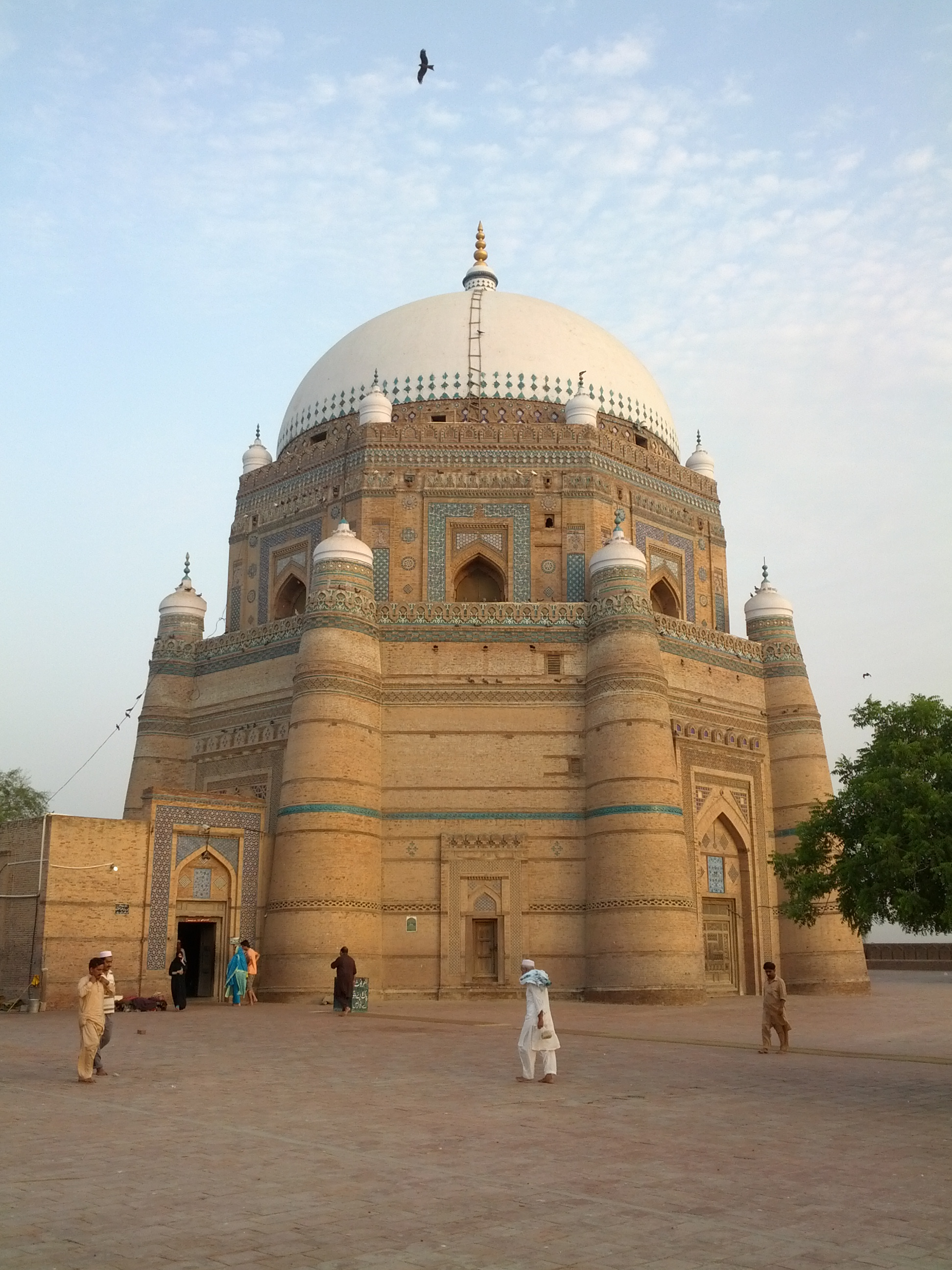 Tomb of Shah Rukn-e-Alam, Multan - Front Courtyard